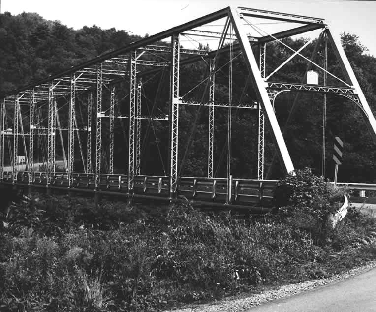 Side of the Bridge in Greenwood Township, which carries Legislative Route 17026 over the West Branch of the Susquehanna River near Bells Landing in Greenwood Township, Clearfield County, Pennsylvania, United States. Built in 1892, this Pratt through truss bridge is listed on the National Register of Historic Places.